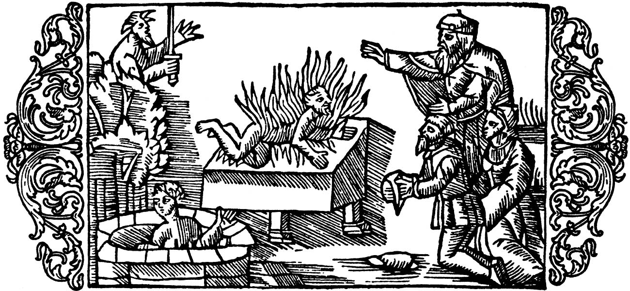 Two humans are sacrificed on this picture. One is drowned in a holy spring and one is burned. The man with a sword symbolizes probably another way of sacrificing of humans. To the right worshipping people.